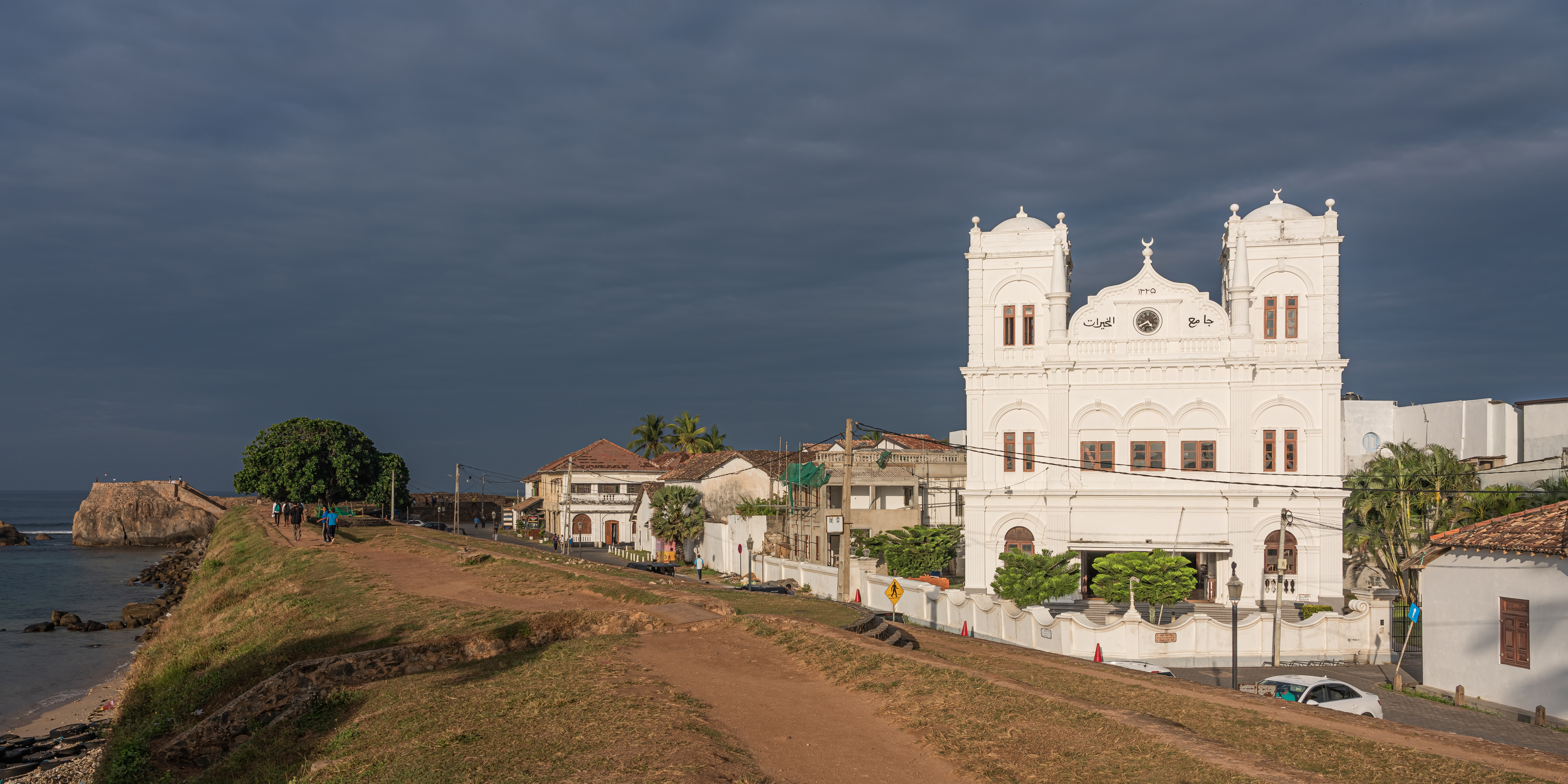 Rampart and Meeran Jumma Mosque in the Dutch Fort of Galle, Sri Lanka